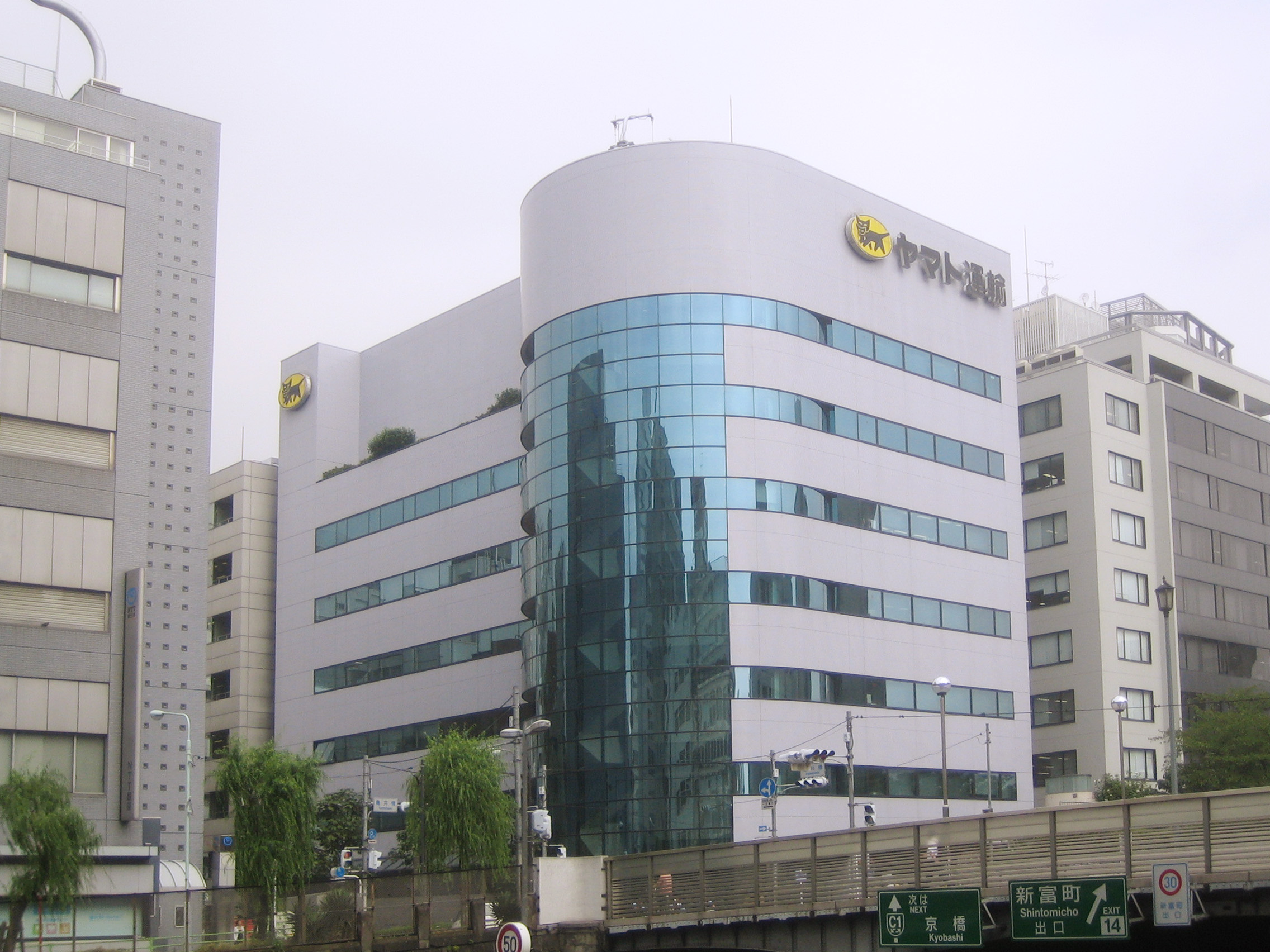 ヤマトホールディングス及びヤマト運輸本社。東京都中央区銀座 head office of Yamato Holdings Co., Ltd. (ヤマトホールディングス) and Yamato Transport Co., Ltd. (ヤマト運輸), at Ginza, Chuo, Tokyo, Japan